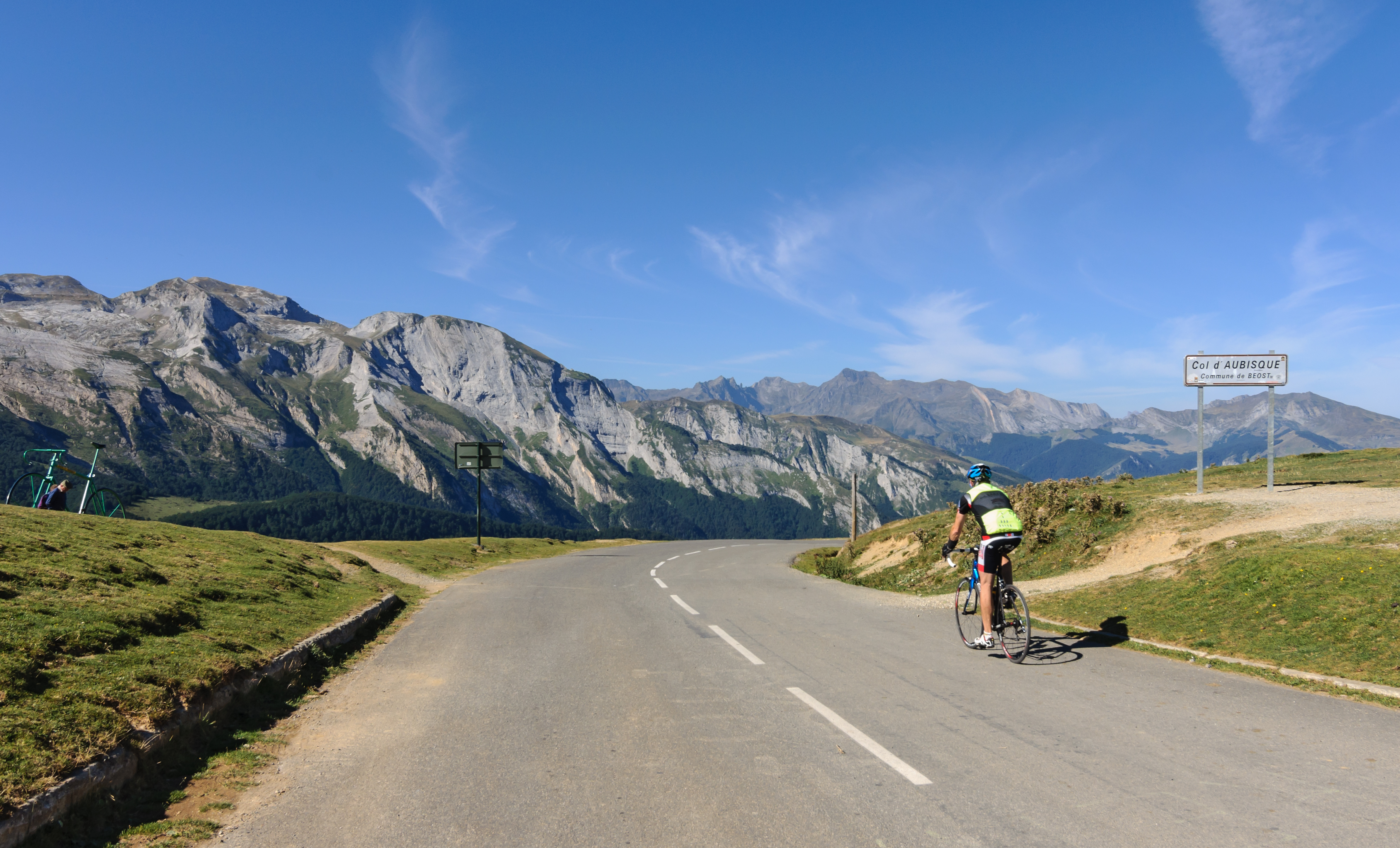 The Col d'Aubisque, a mountain pass in the Pyrenees, on the road towards the west side, Gourette and the Ossau Valley (Pyrénées-Atlantiques, France).